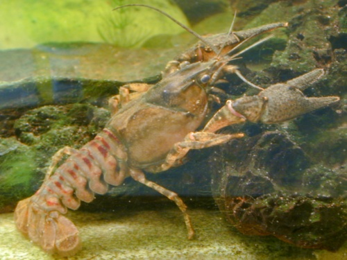 Photograph by Andreas R. Thomsen. We are keeping this one in our cold water aquarium for almost one year now. It is quite fond of eating worms, insect larvae and fresh fish. It found the way to us by grasping my fishing line, a few meters away from the bait!